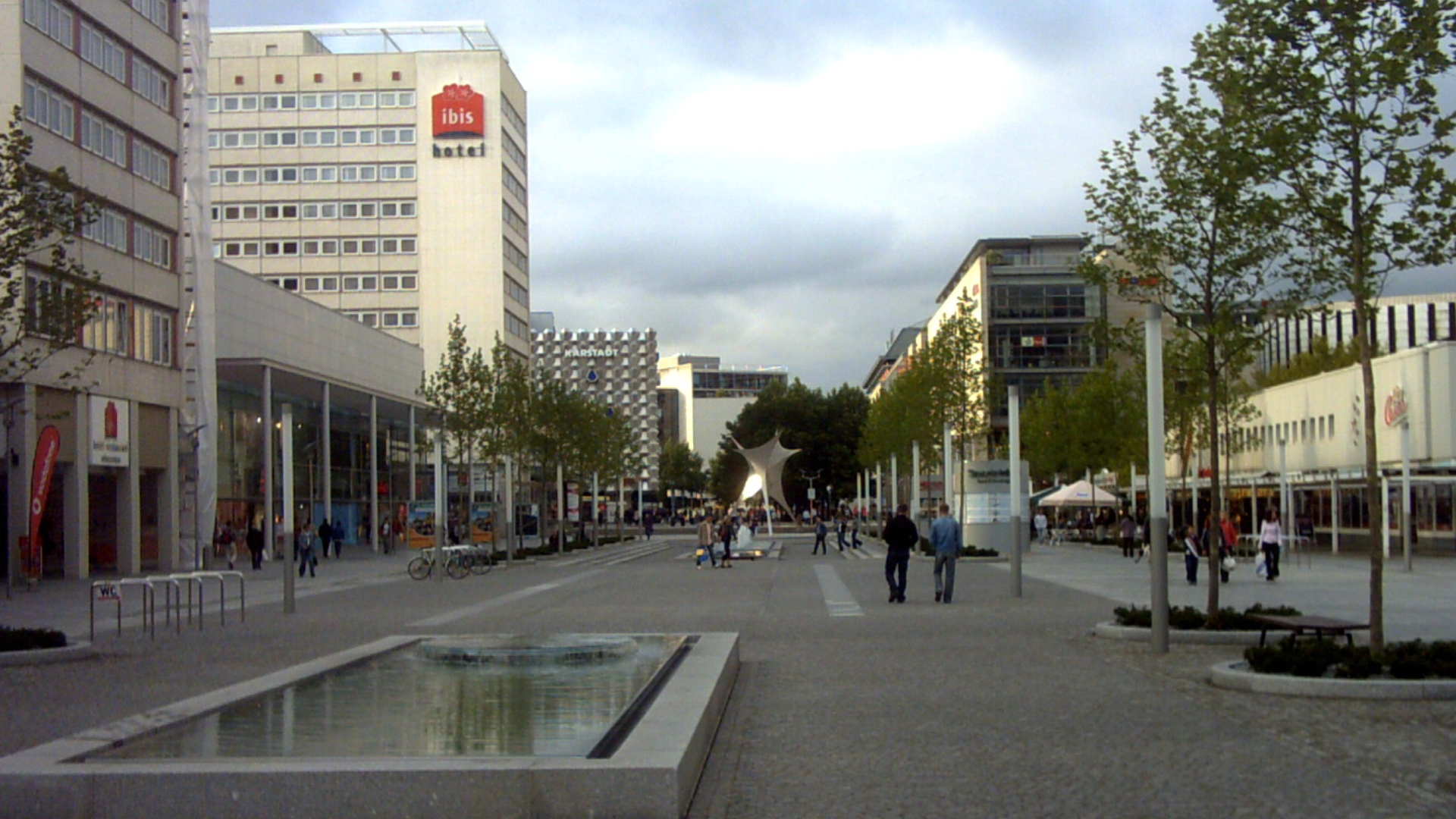 This picture shows the street "Prager Straße" in Dresden (Germany). The foto is taken by me. License:Public Domain